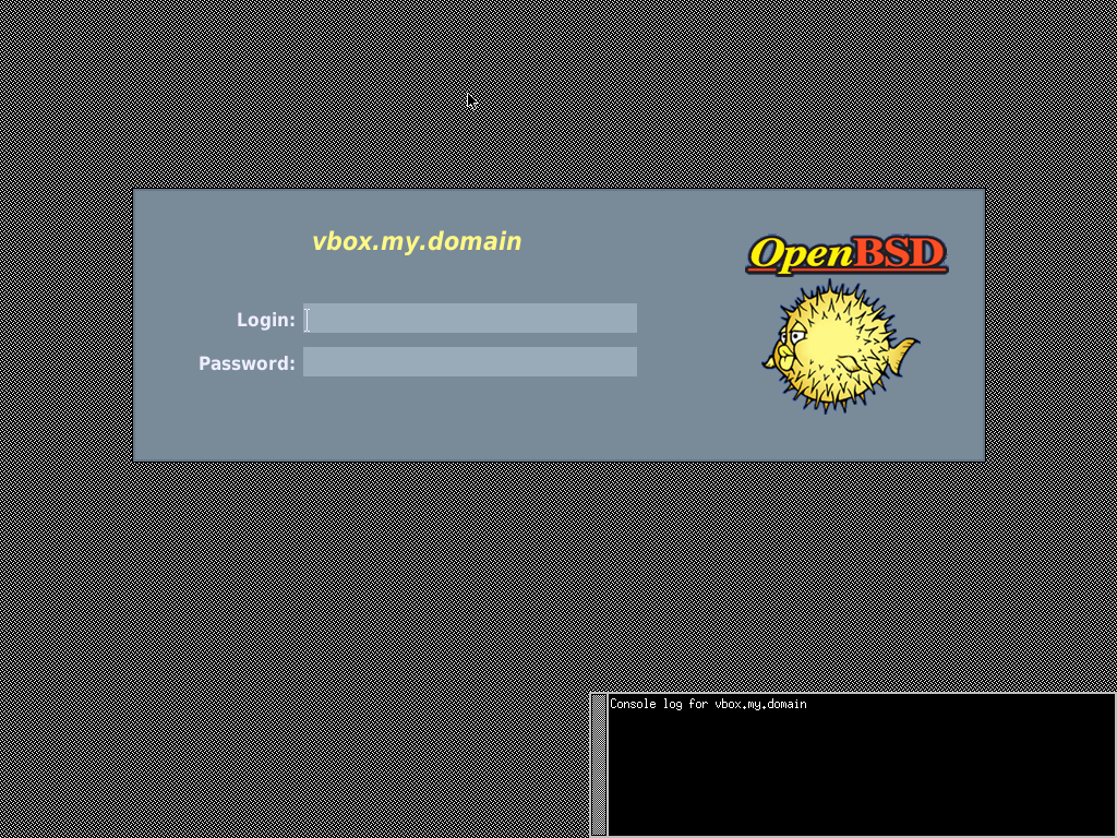 OpenBSD 6.6 login screen.